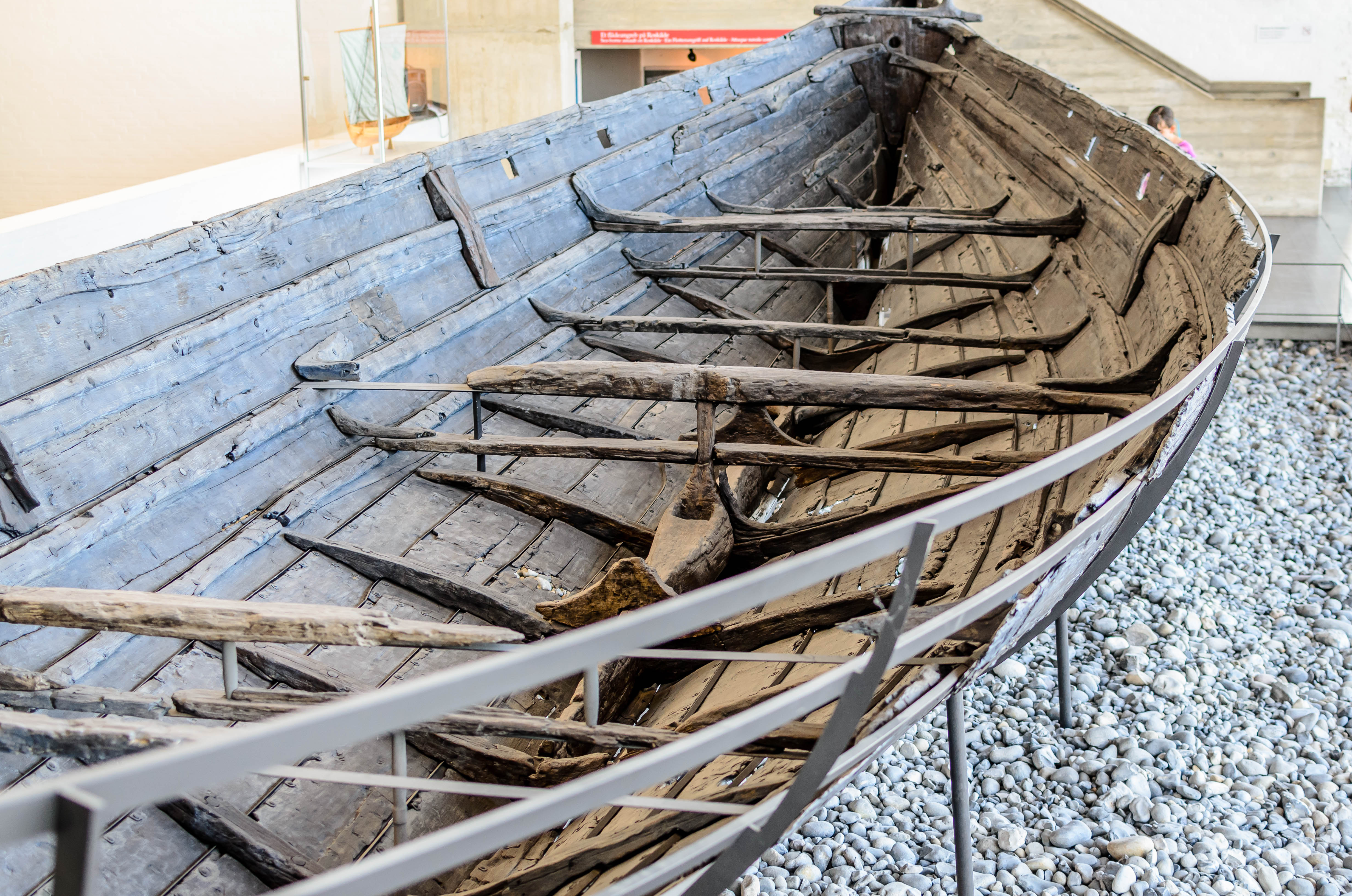 Skuldelev 3 Viking Ship, Vikingeskibsmuseet Roskilde